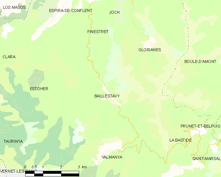 Map of French municipality